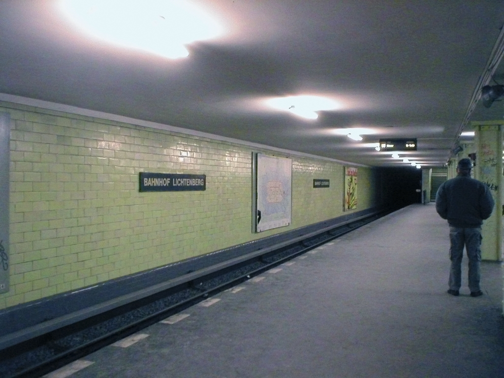 Berlin U-Bahn station Lichtenberg before renovation